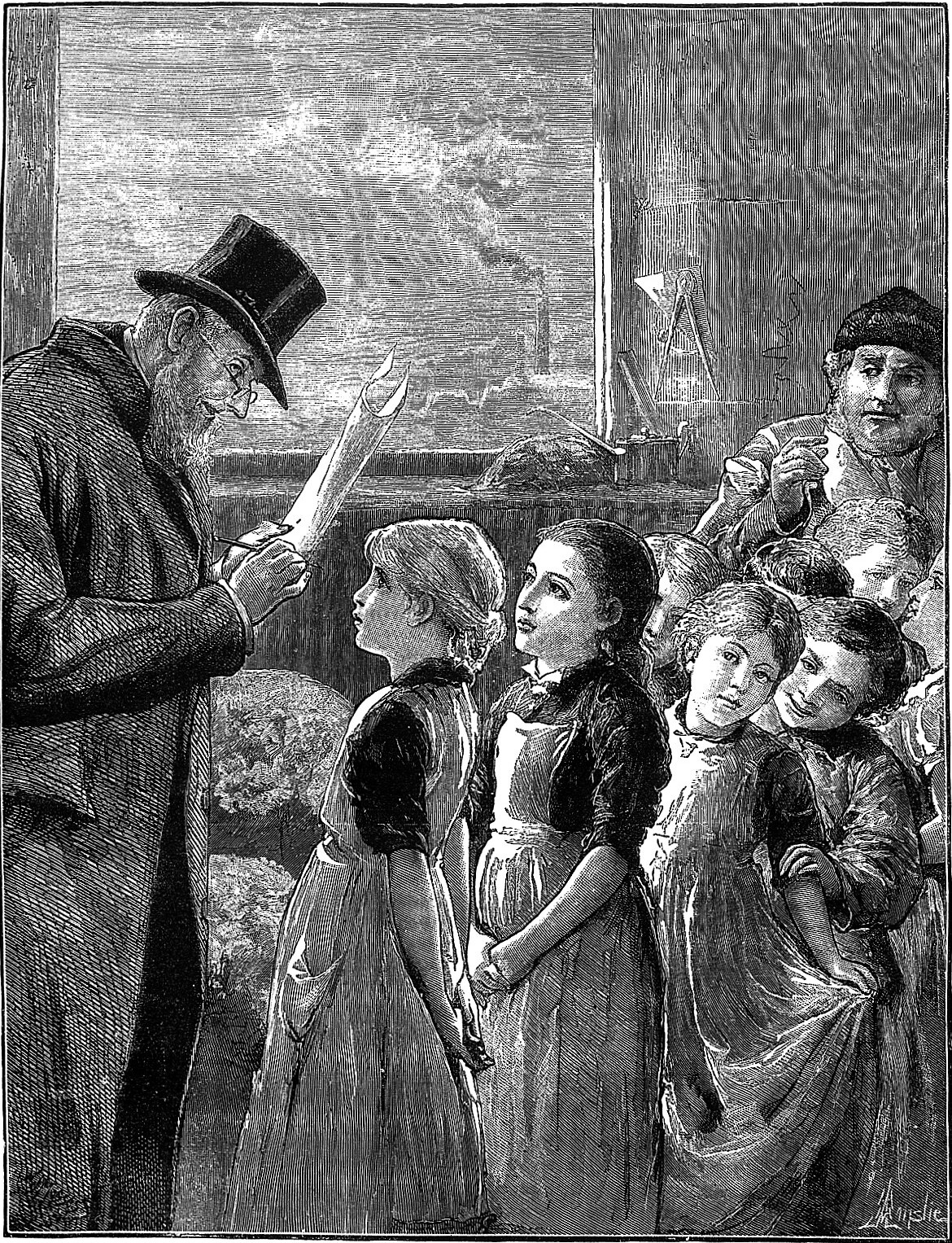 A government inspector visiting a factory employing young persons Wellcome Images Keywords: Child Welfare